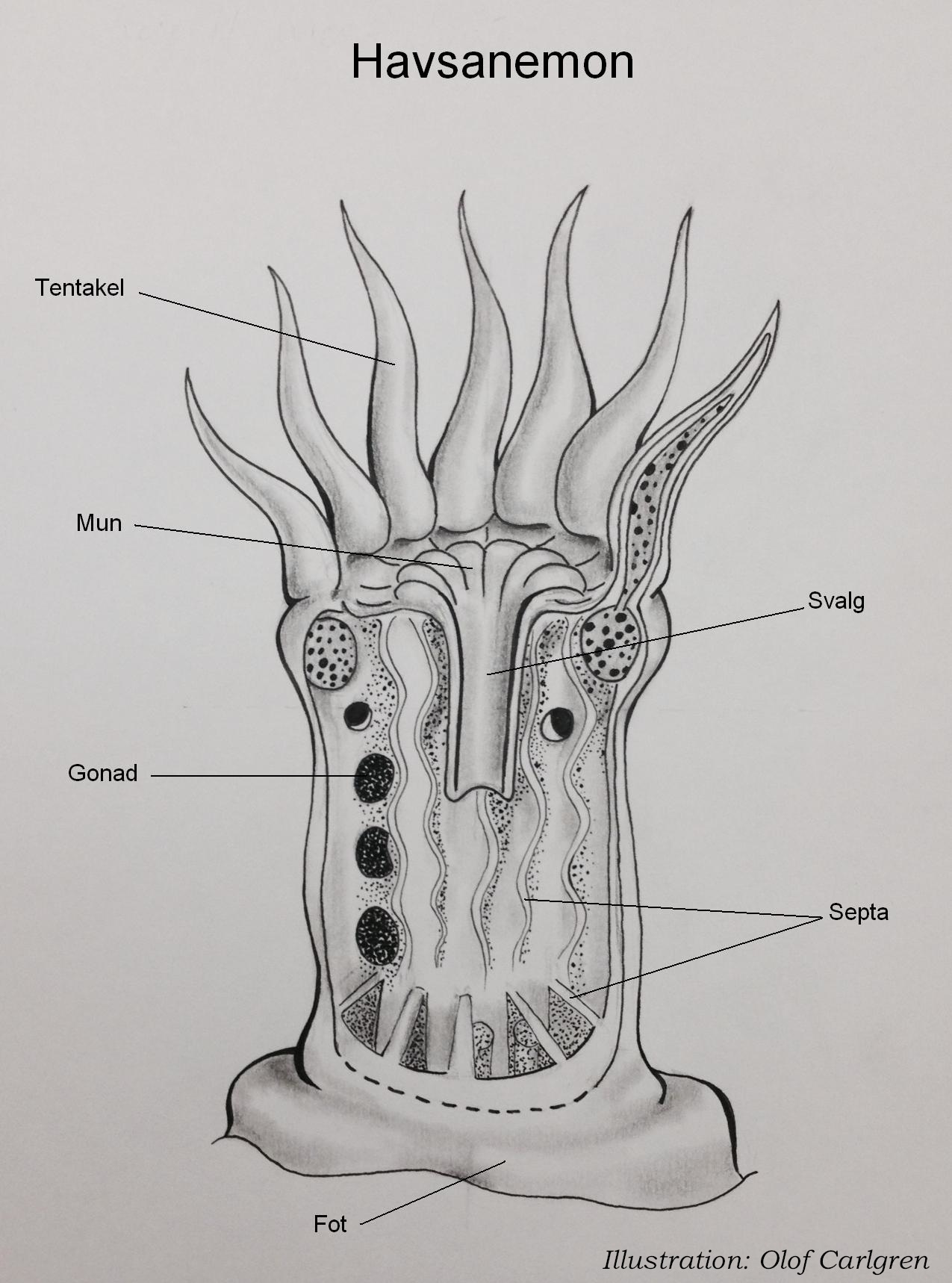 Anatmoi of Anemon